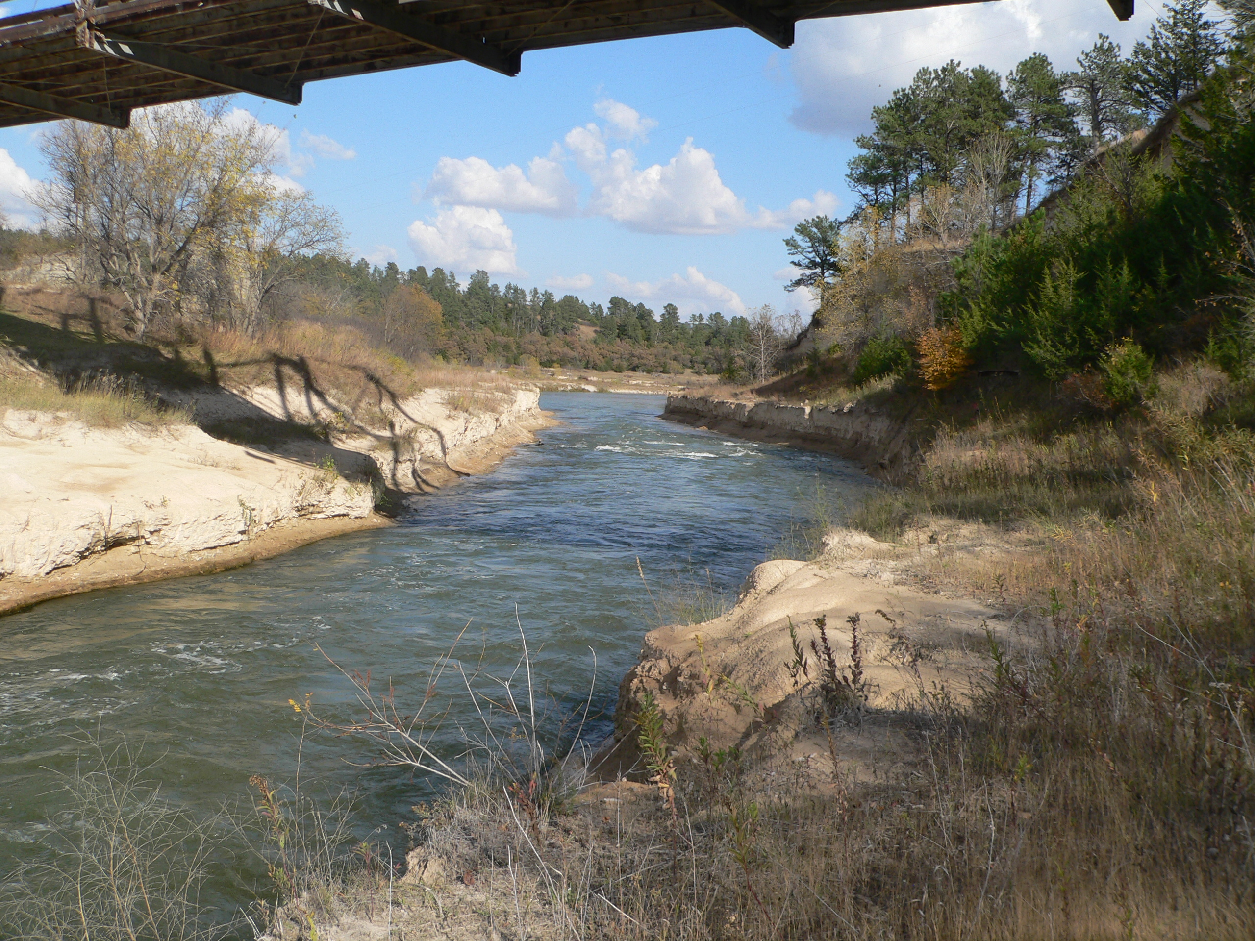 Niobrara River just below Norden Chute, running under the Norden Bridge; camera faces east (downstream). The river at this point forms the boundary between Keya Paha County, Nebraska and Brown County, Nebraska